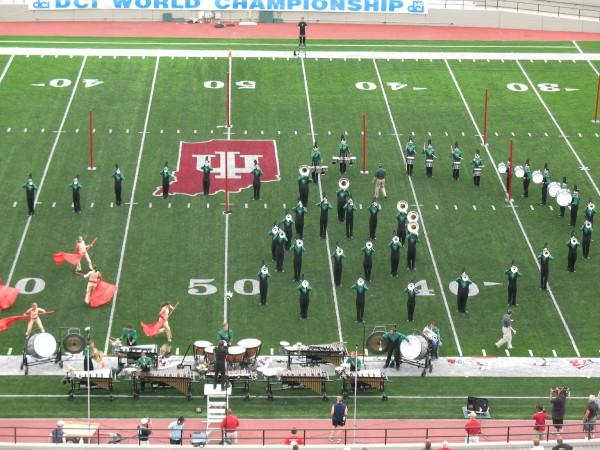 The 2008 Oregon Crusaders performing their program, "Inner Connections."